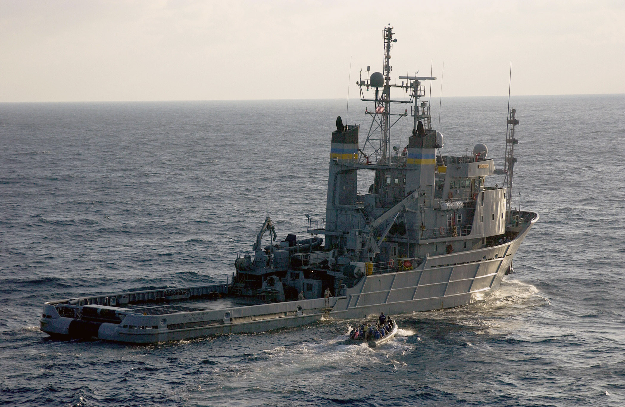 Atlantic Ocean (Sept. 10, 2003) — The guided missile cruiser USS Philippine Sea (CG-58) Maritime Interdiction Operations (MIO) boarding team performs, practice-boarding procedures with the fleet ocean tug USNS Apache (T-ATF-172). Philippine Sea is conducting work ups before its upcoming scheduled six-month deployment as part of the Enterprise Carrier Strike Group.